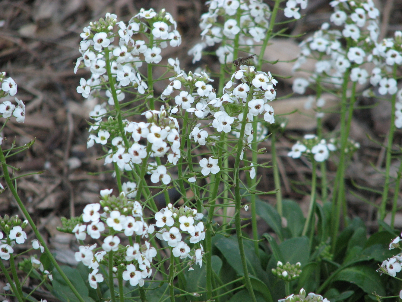 Drabastrum alpestre (cultivated, labelled), Royal Botanic Gardens Melbourne, Australia